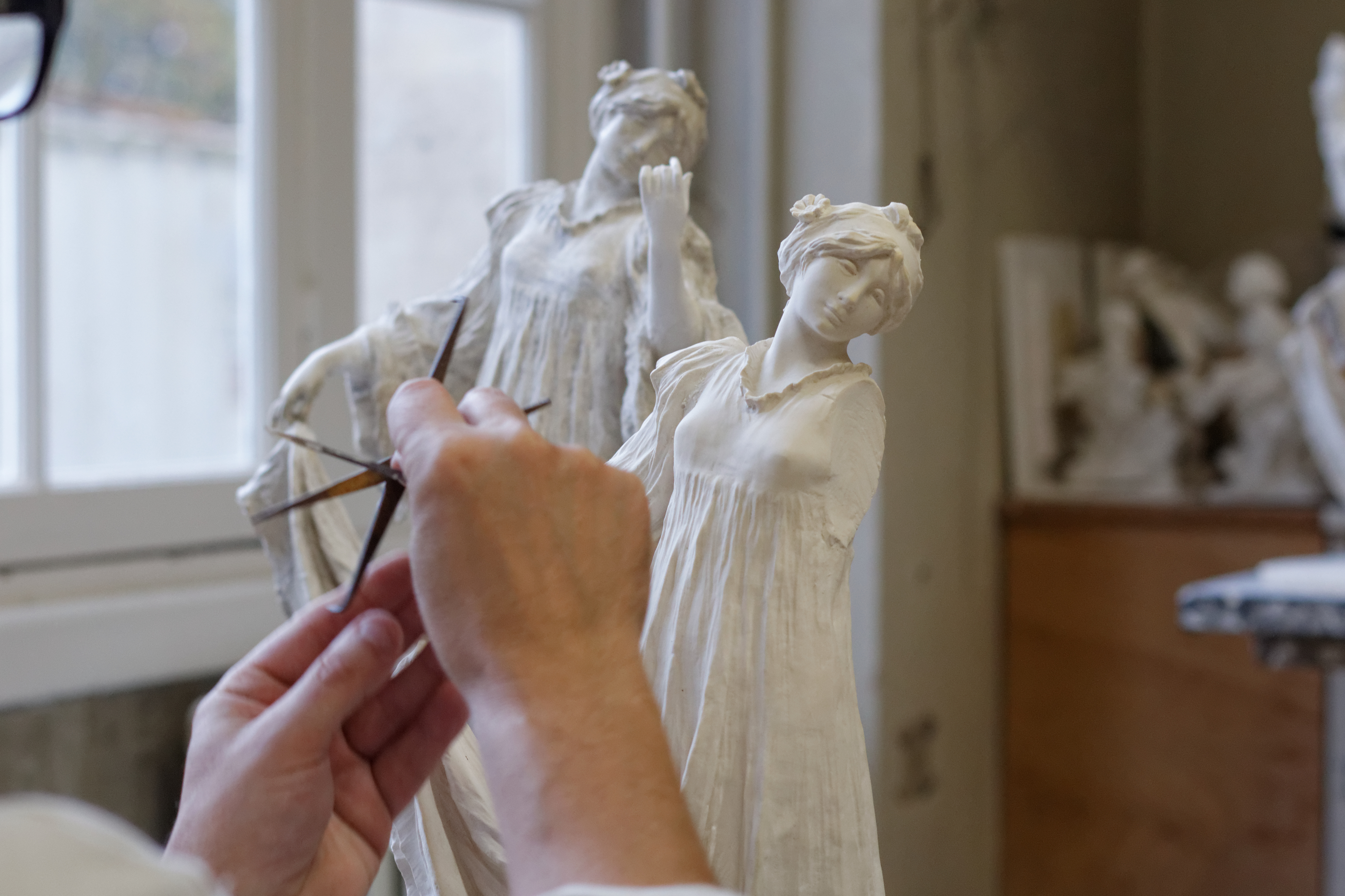 Figure sculpting workshop of the manufacture nationale de Sèvres.